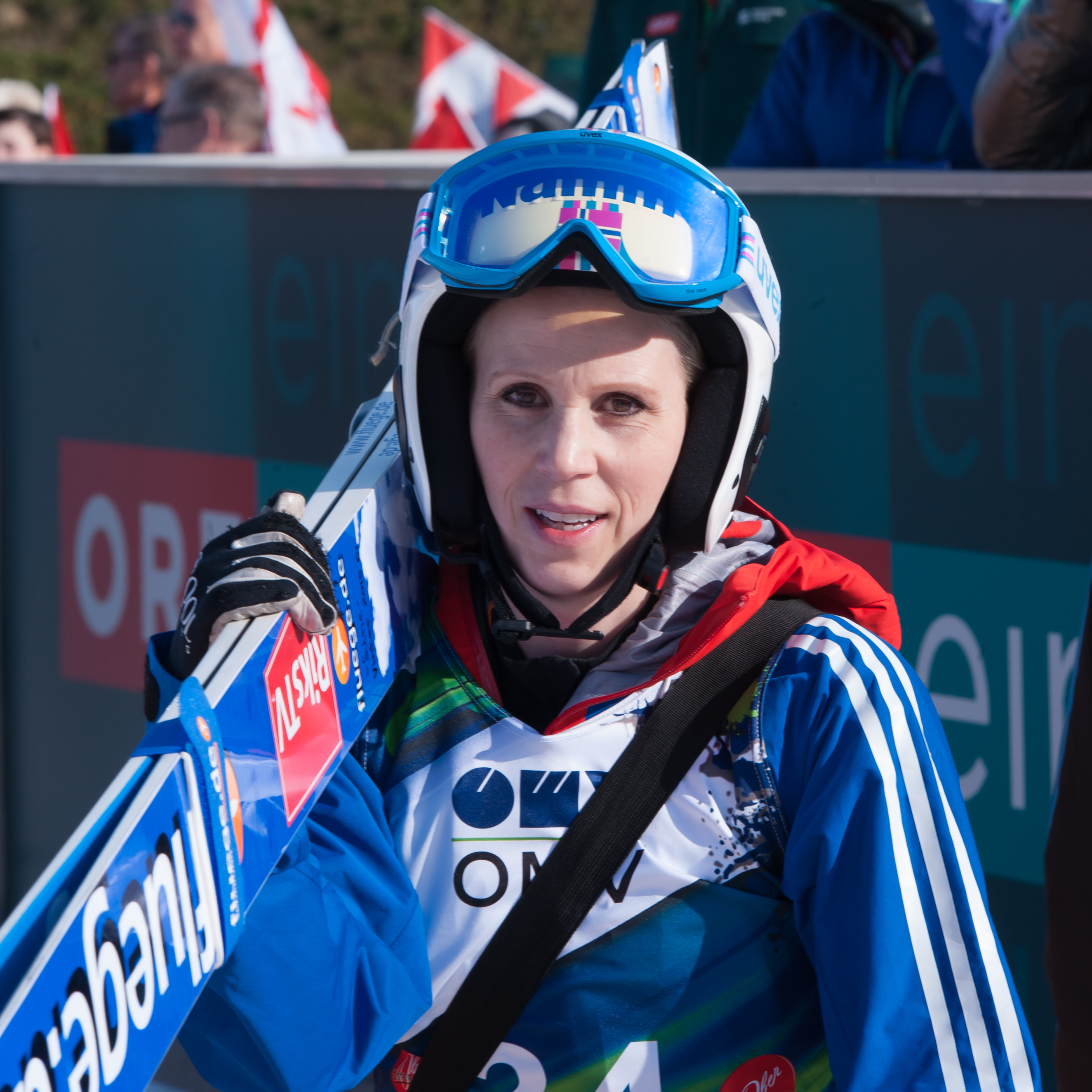 FIS Ski Jumping World Cup Hinzenbach Sun 1 Feb 2015